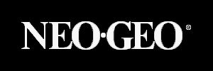 Neo-Geo MVS logo